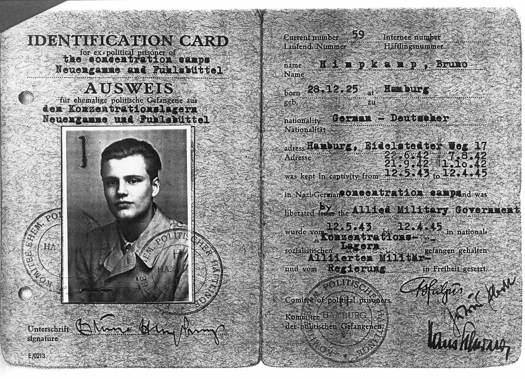 Allied Identity Card of Bruno Himpkamp, issued after his release from the concentration camp